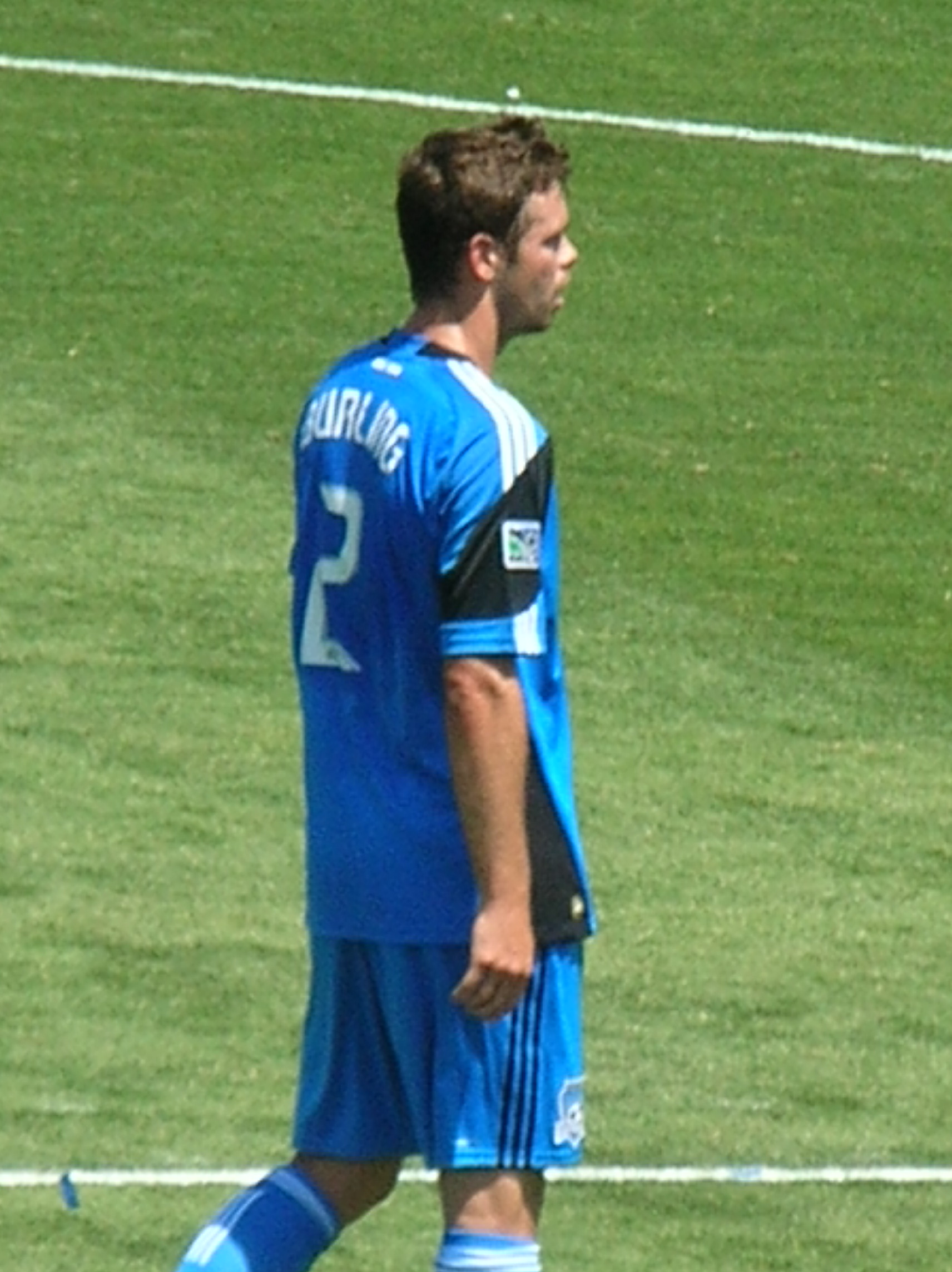 San Jose Earthquakes defender Bobby Burling at a home game against the LA Galaxy. The Earthquakes won 1-0.